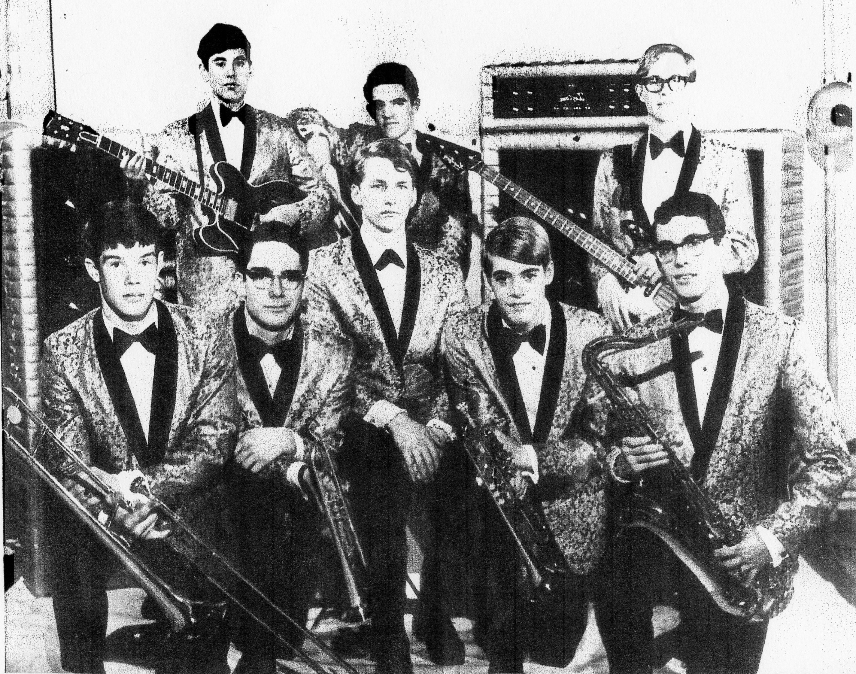 The Revolution